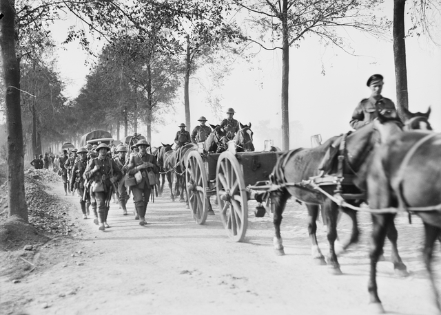 The New Zealand Infantry moving up to the Ypres sector in anticipation of the attack on Broodseinde Ridge two days later.